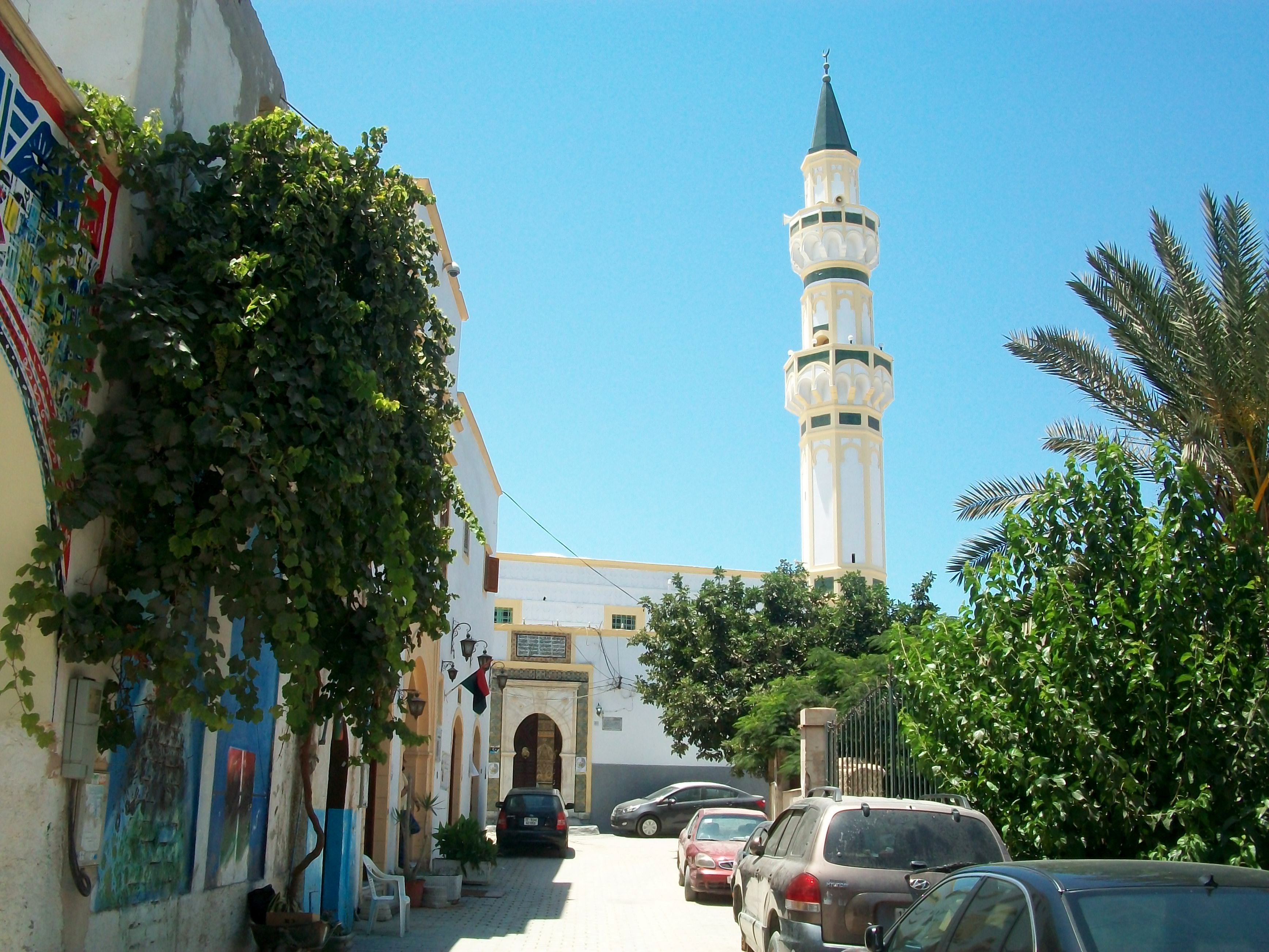 The exterior of the Gurgi Mosque — in the medina of Libya's capital Tripoli.